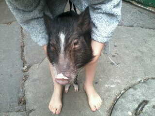 Young miniature pig (minipig) on the streets of Mexico City (Condesa neighborhood)